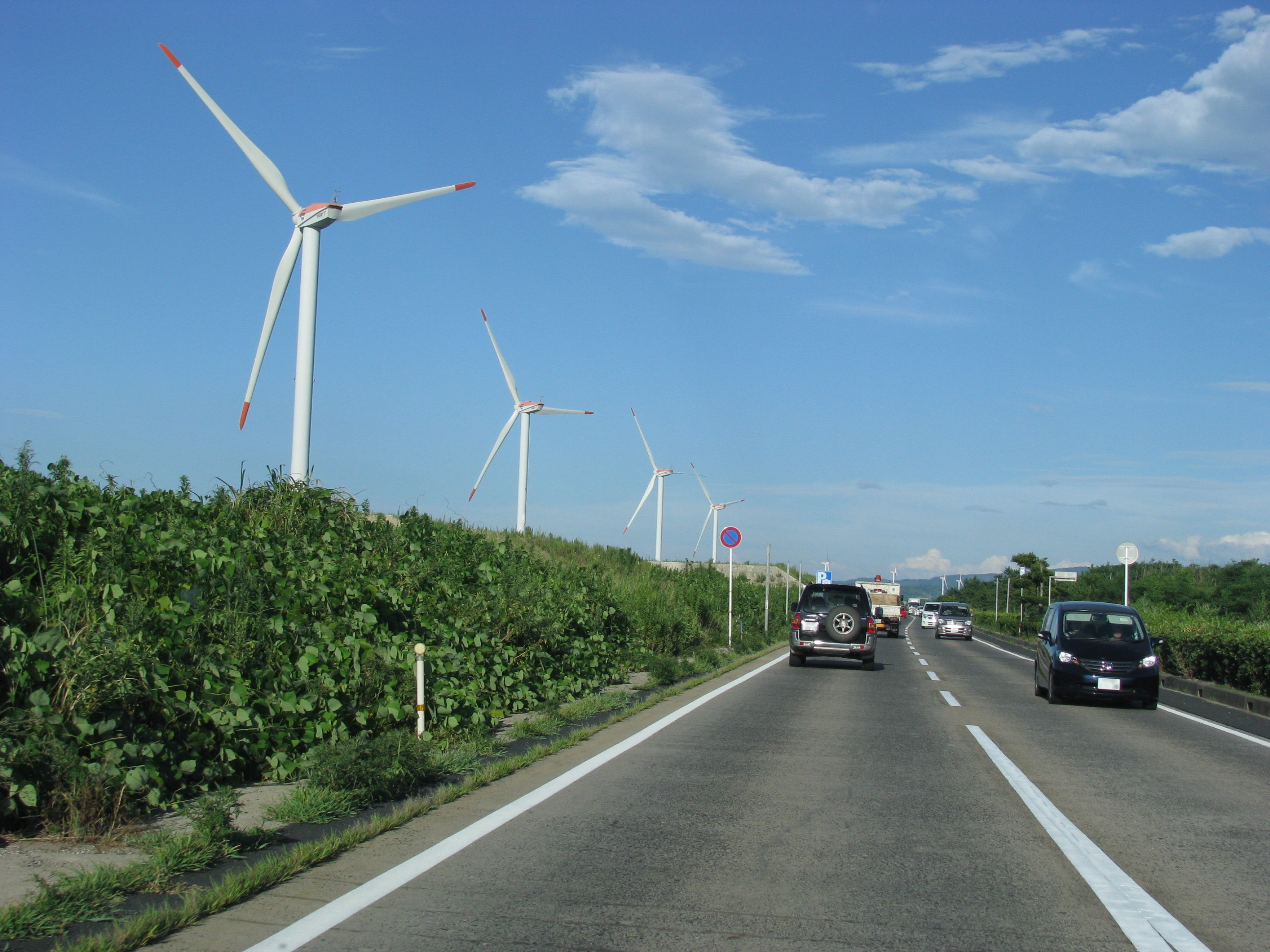 The Japan National Route 9. This place is Hokuei, Tottori Prefecture, Japan.